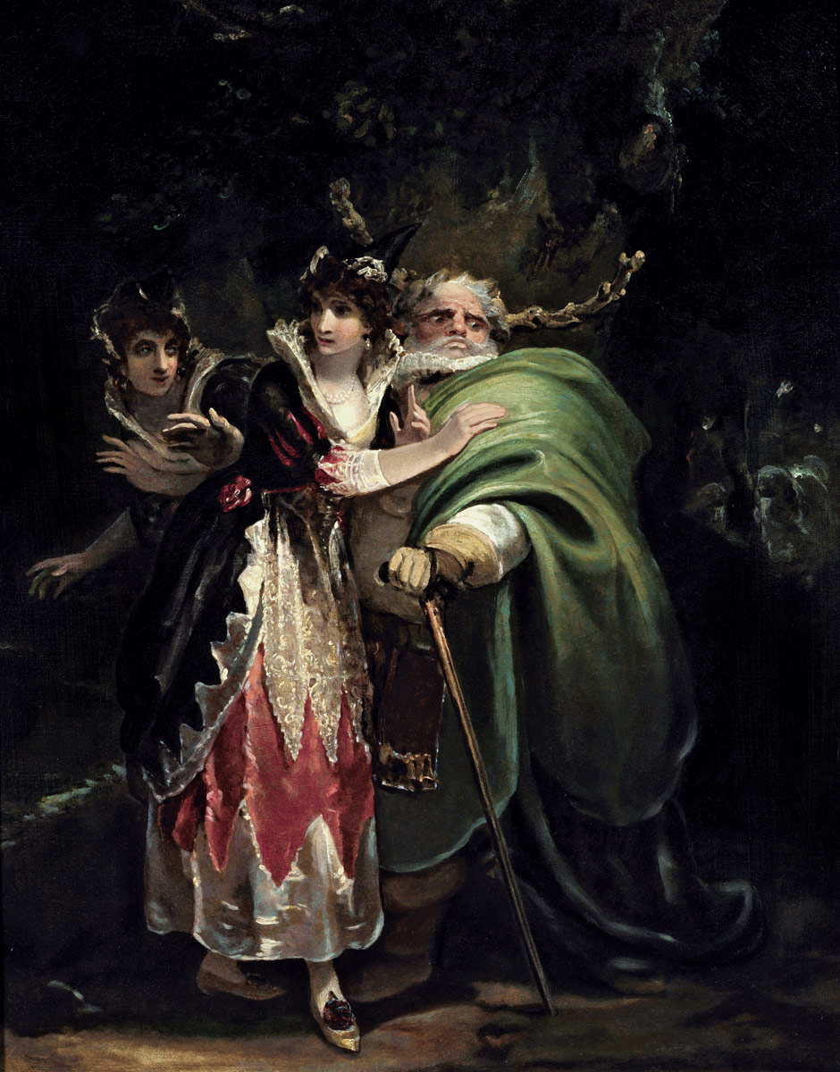 Scene from The Merry Wives of Windsor